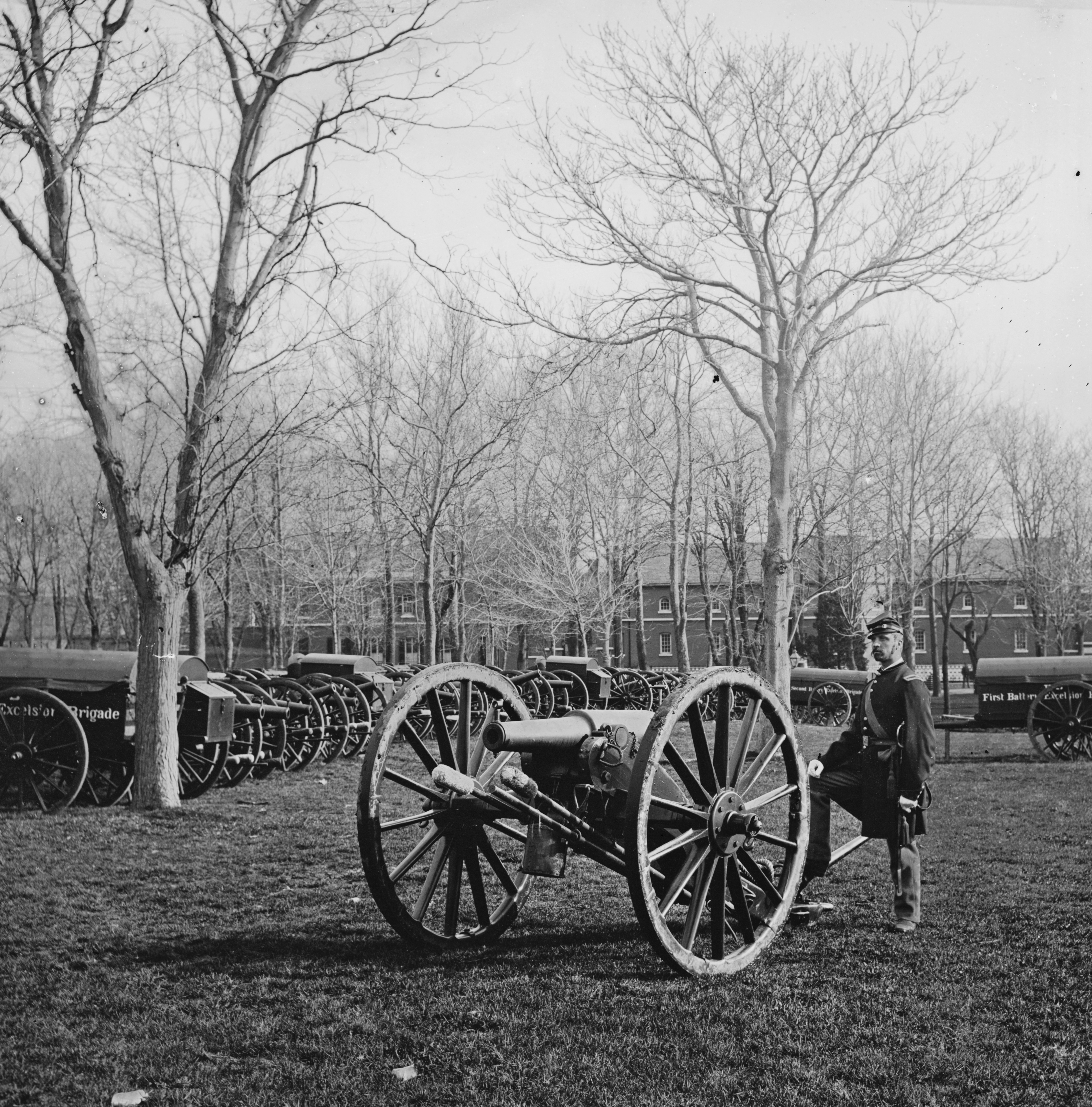 Photo by Mathew Brady, Union soldier by gun at US Arsenal, Washington DC, 1862.